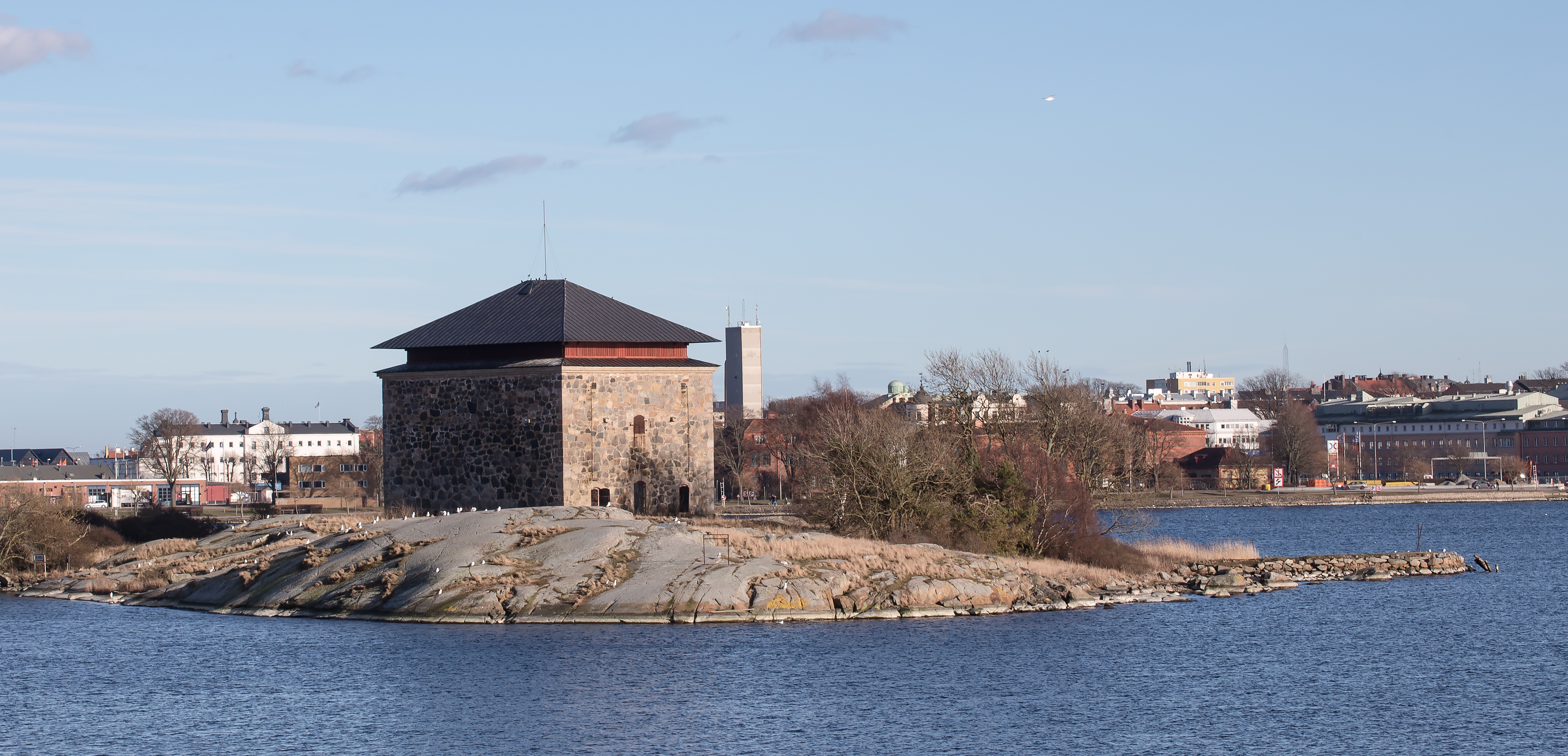 Ljungskär magazine in Karlskrona, Sweden